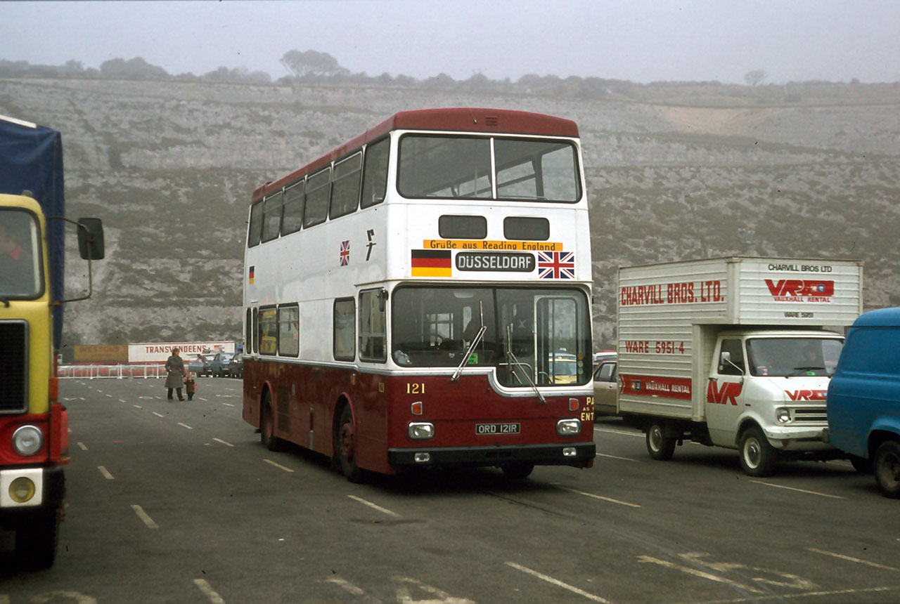 A Reading Transport double-deck bus waits for a ferry at Dover Eastern Docks in April 1978 on its way to visit Reading's twin town of Düsseldorf in Germany. The bus is a MCW Metropolitan, registration mark ORD 121R, fleet number 121. In the background are the grey cliffs of Dover.